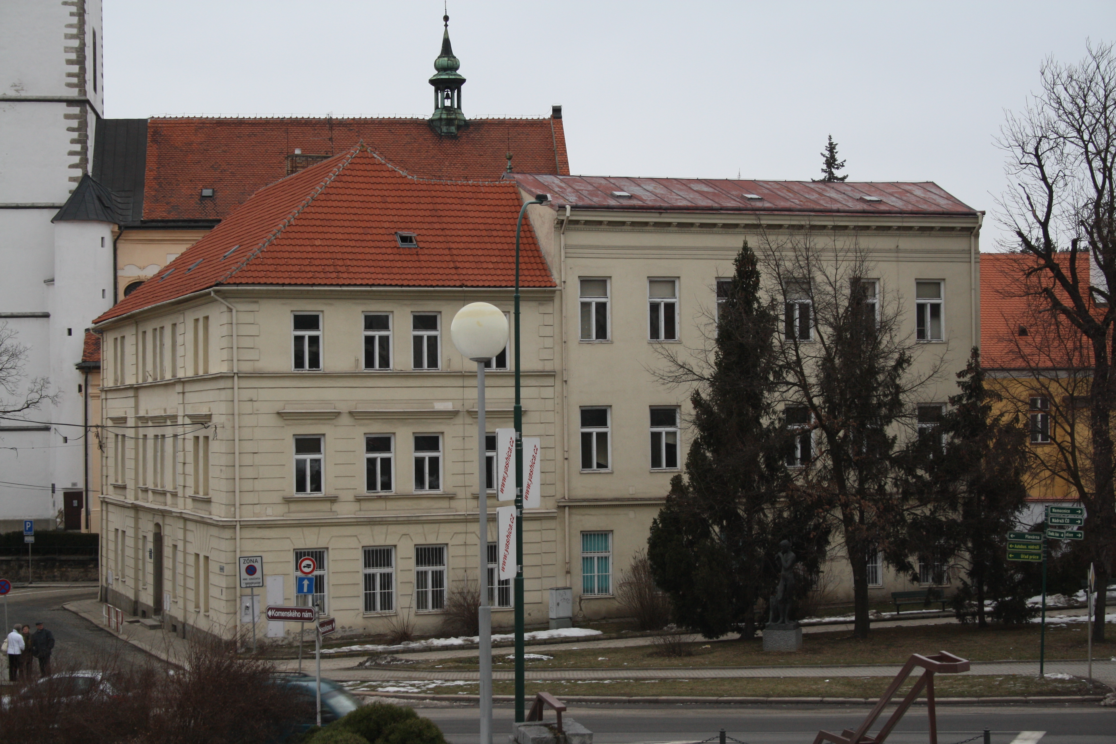 Building Z of Gymnázium Třebíč, Hasskova 88/15.